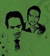 Album picture from the Enslavement of Beauty album Mere Contemplation